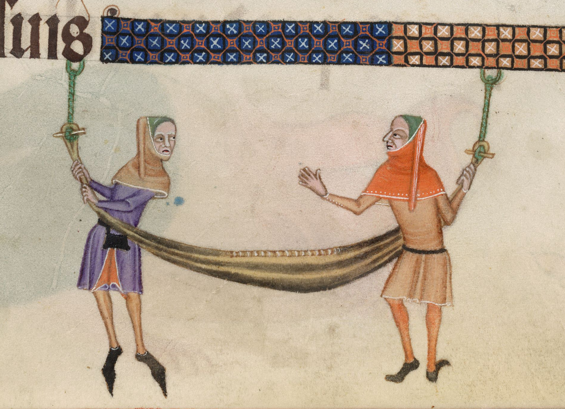 A hammock, depicted in the medieval English Luttrell Psalter. The miniature on the margins of the Latin text proves the existence of hammocks in Europe prior to the discovery of the Americas by Columbus.[1]